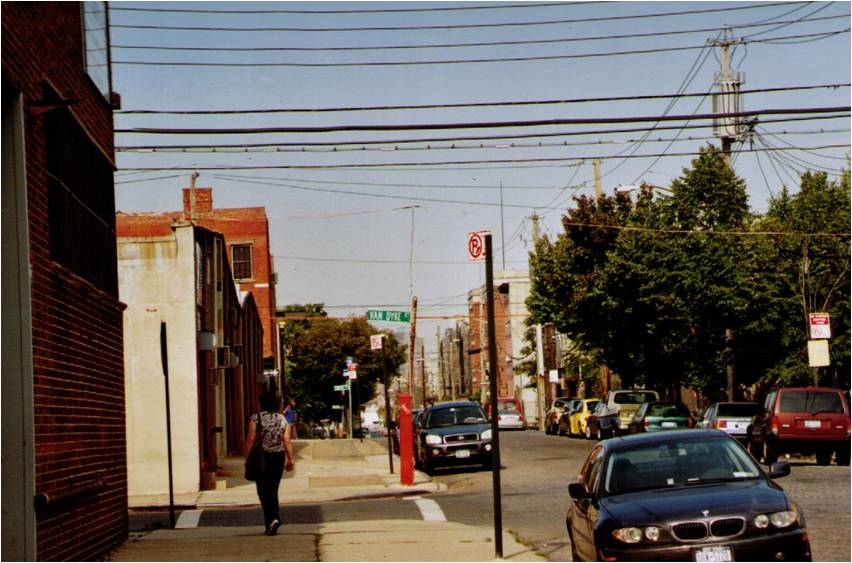 Red Hook Van Brunt Street